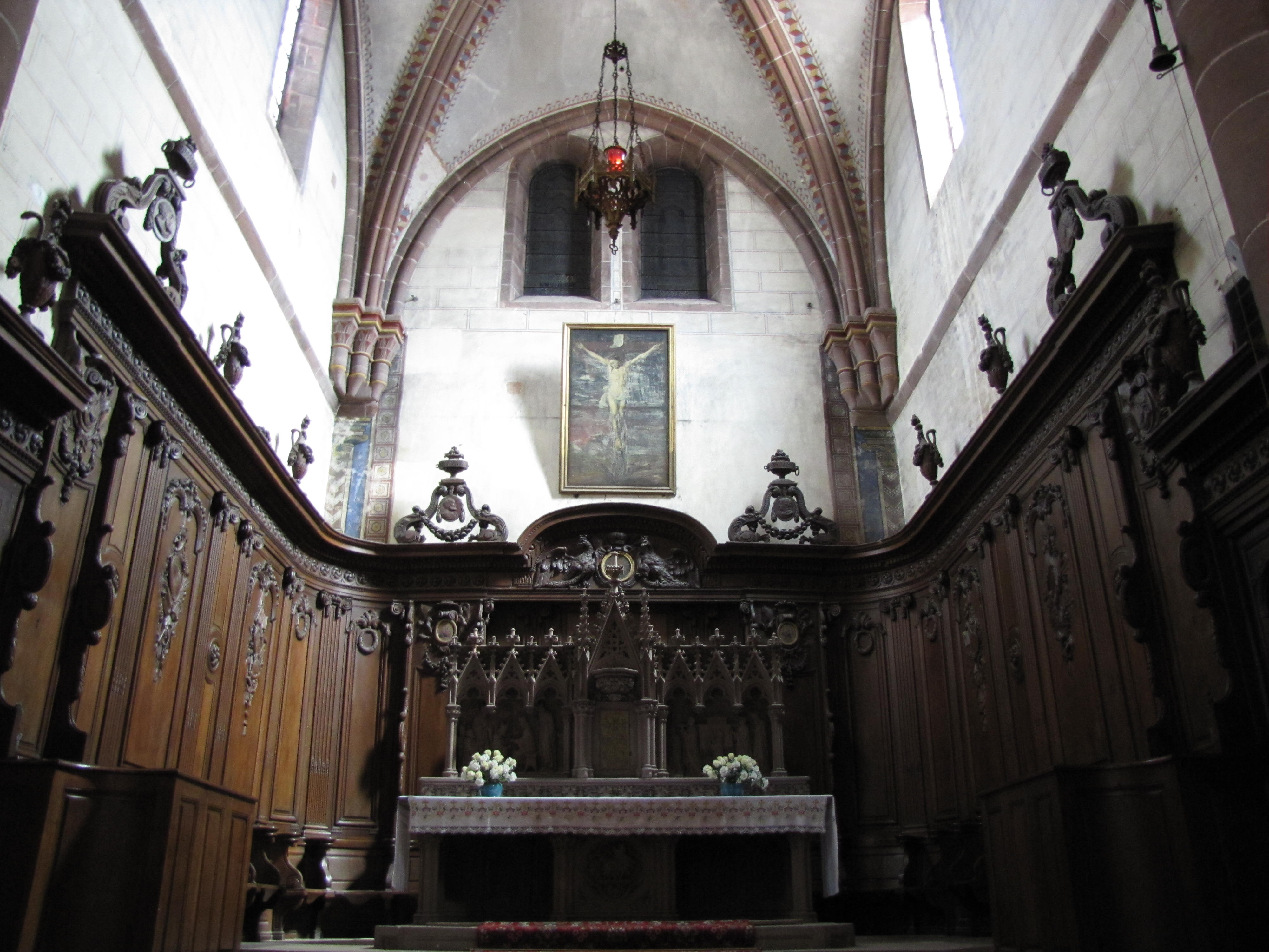 Alsace, Bas-Rhin, Neuwiller-lès-Saverne, Église abbatiale Saints-Pierre et Paul (PA00084820, IA67009917. Chœur avec stalles et lambris (XVIIIe): This object is classé Monument Historique in the base Palissy, database of the French furniture patrimony of the French ministry of culture, under the references PM67000790 and IM67015505.